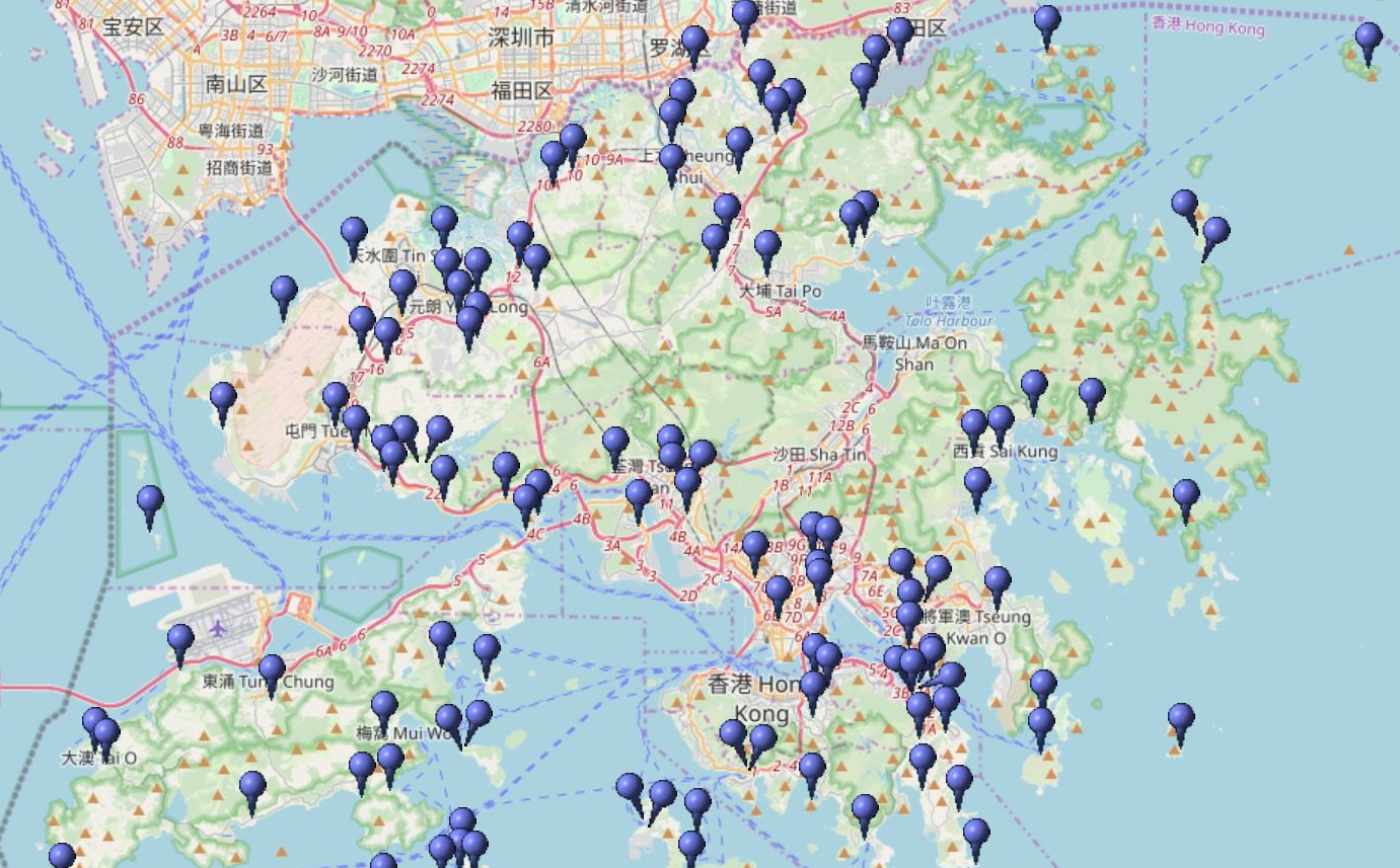 Location of Tin Hau Temples in Hong Kong. Map by OpenStreetMap